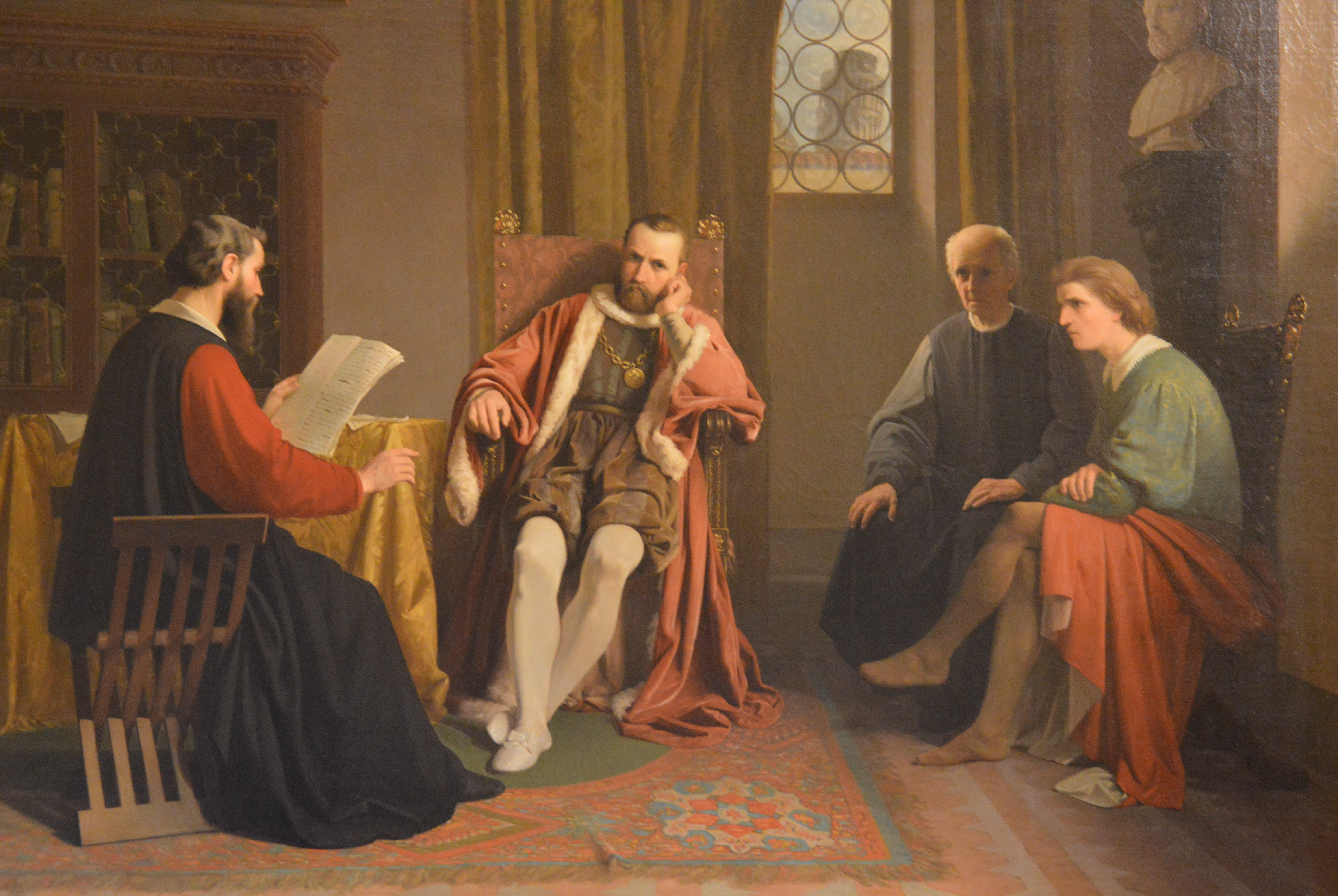 Giuseppe Ciaranfi's 1862 painting "Benedetto Varchi che Legge l'istoria Fiorentina a Cosimo De'Medici" (Benedetto Varchi Reads His Storia Fiorentina to Cosimo I) at the Galleria d'Arte Moderna in Florence, Italy.